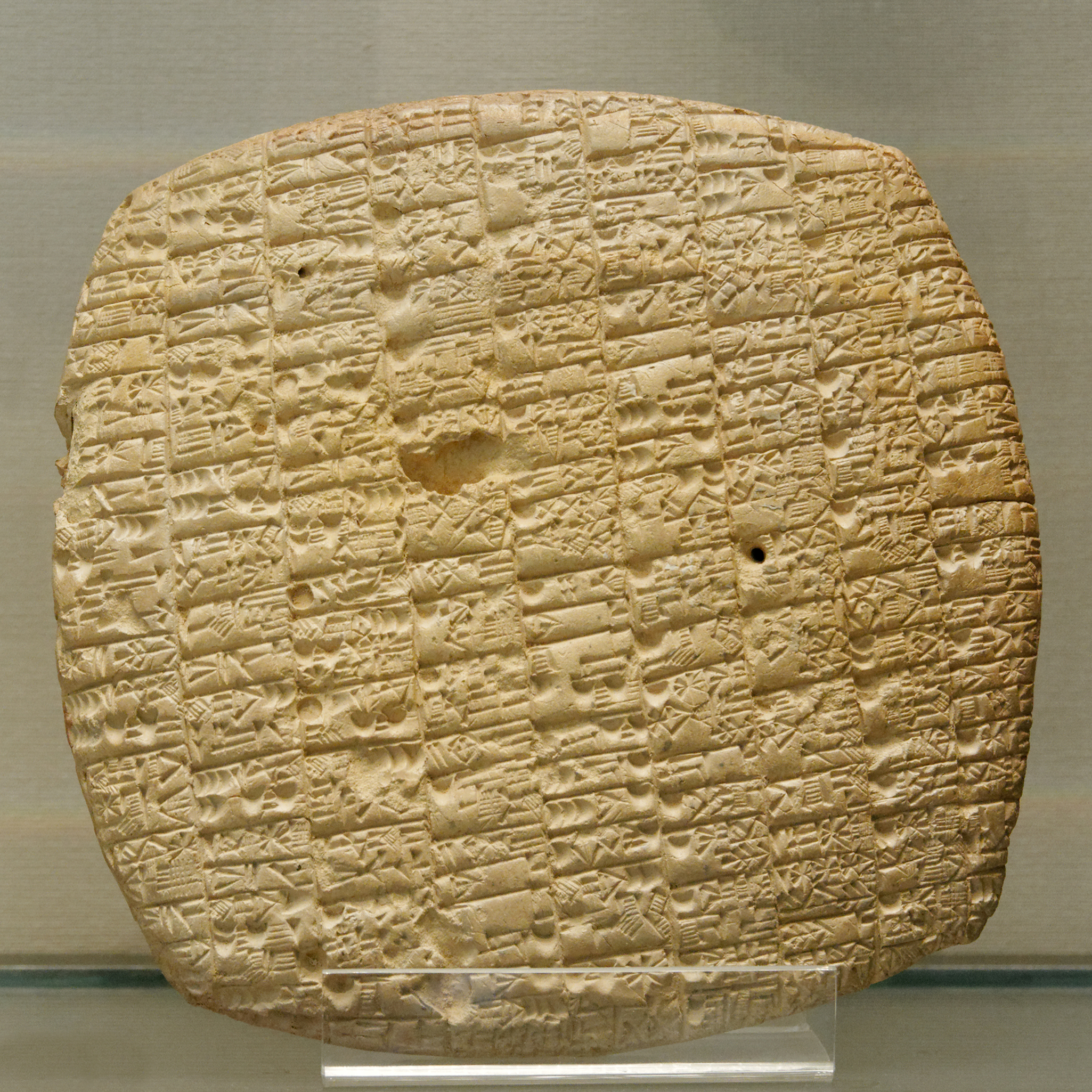 Tablet from the administrative archives of the temple of Ba'u at Lagash quoting the wages due to the different categories of personnel, about the time of Uruinimgina.